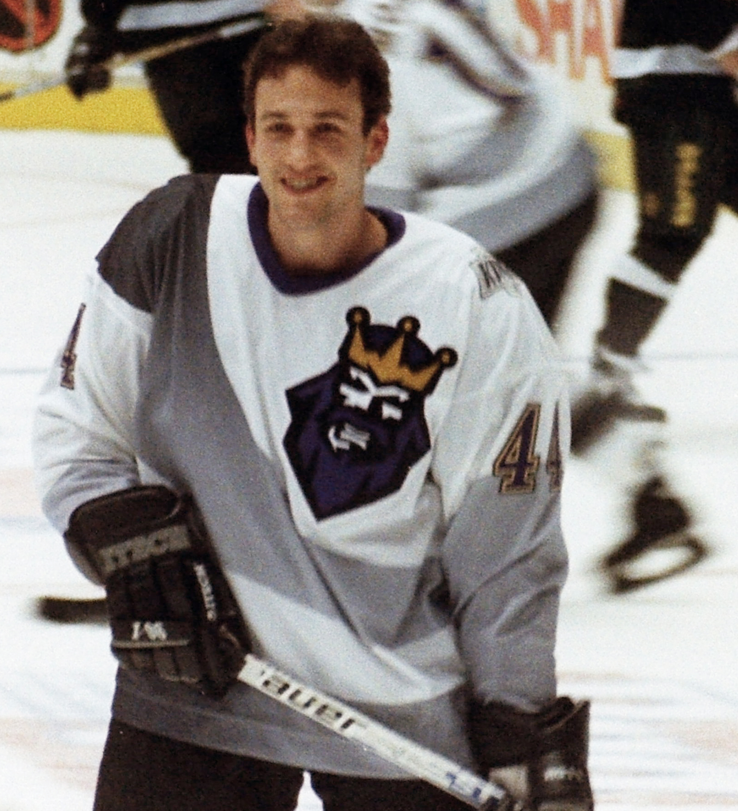 Perreault as a member of the Kings.